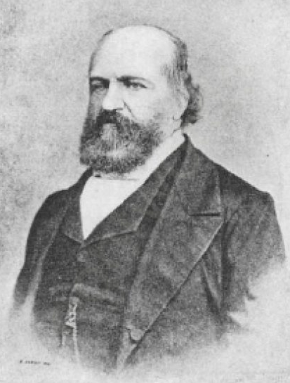 French writer, journalist and politician Alphonse Esquiros (1812-1876)